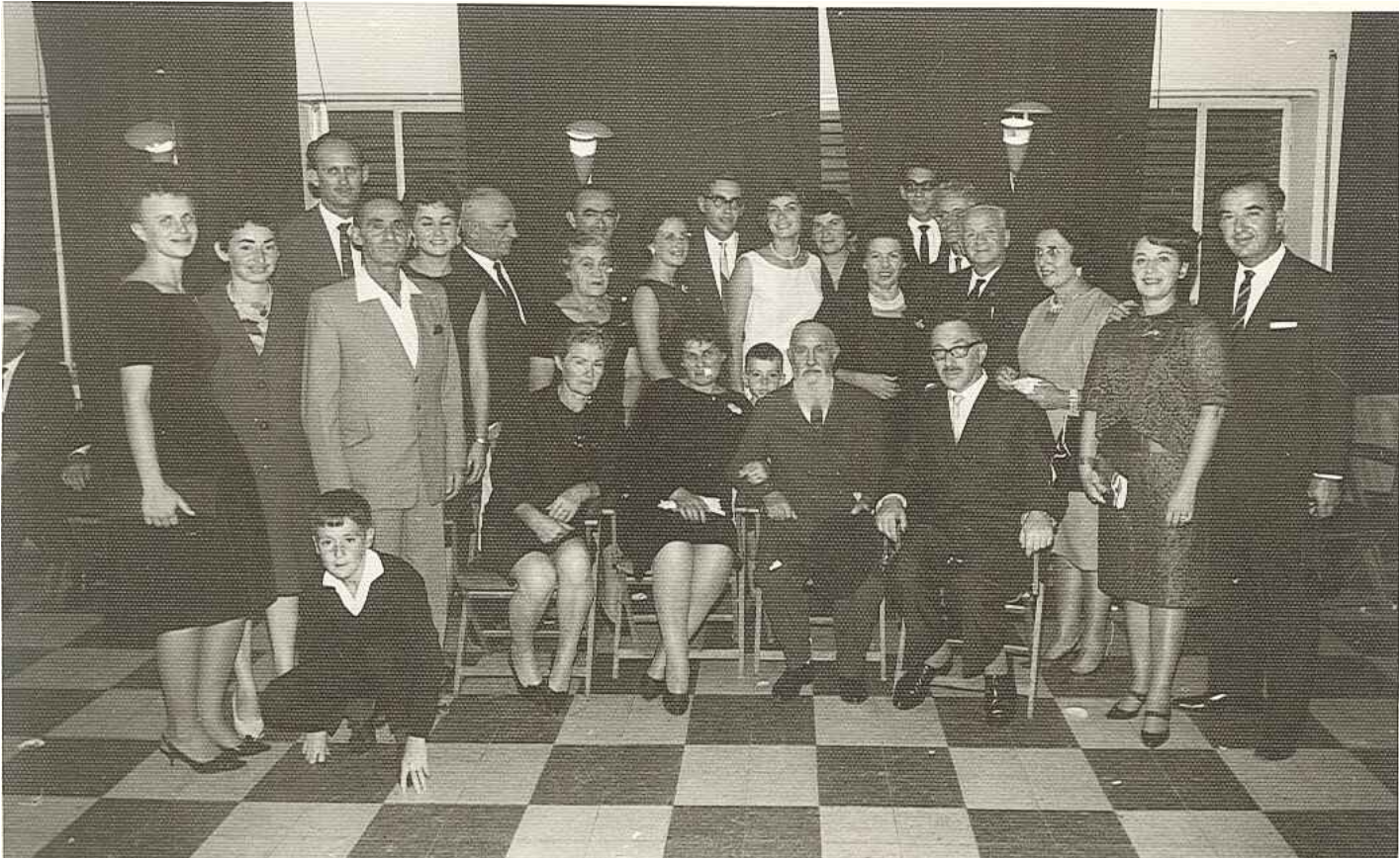 Wedding Prof. Summer 1966 Shekel Jerusalem Israel. From the estate of Rosita Brillant (nee' Segal) my mother